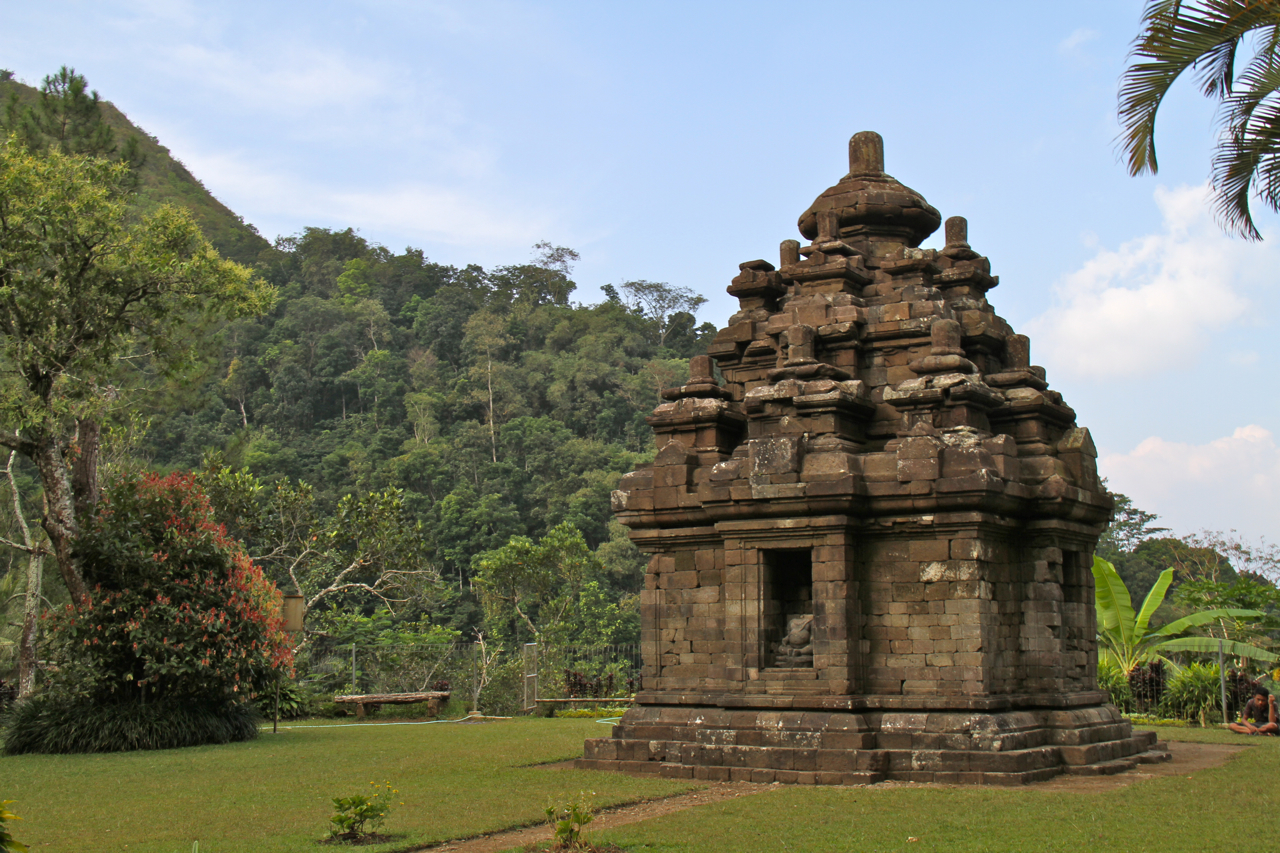 This small Hindu temple, built in 9th century, is dedicated to Lord Shiva. It faces east, is near the top of the mountain, northwest of Yogyakarta, Java, Indonesia. It is one of the 100s Hindu and Buddhist temples in the region. Temples of Siva, the Mythical Destroyer and Recycler of Energy and Matter, also known as Mahadeva, Mahesh were widely distributed in Indonesia before the arrival of Islam. Now, Hindus are found primarily in Bali. Inside Candi Selogriyo is space for Siva Linga (now missing). Outside are statues carved of (1) God Siva's wife Parvati (also known as Durga or Shakti) who stands with her feet touching Nandi, (2) God's Siva's son Ganesh who according to Hindu legend has an elephant head, (3) Agastya. A statue of Mahakala is also visible. Vandalism has removed all the heads of the statues; as well caused damage to the temple walls and interior. The temple roof is shaped like a Amalaka made of linga and yoni (signifying male and female sexual energy that recombine, recreate and recycle life). This temple has been speculated to bless the rice farms, agriculture community and Hindu villages in this remote part of Java.